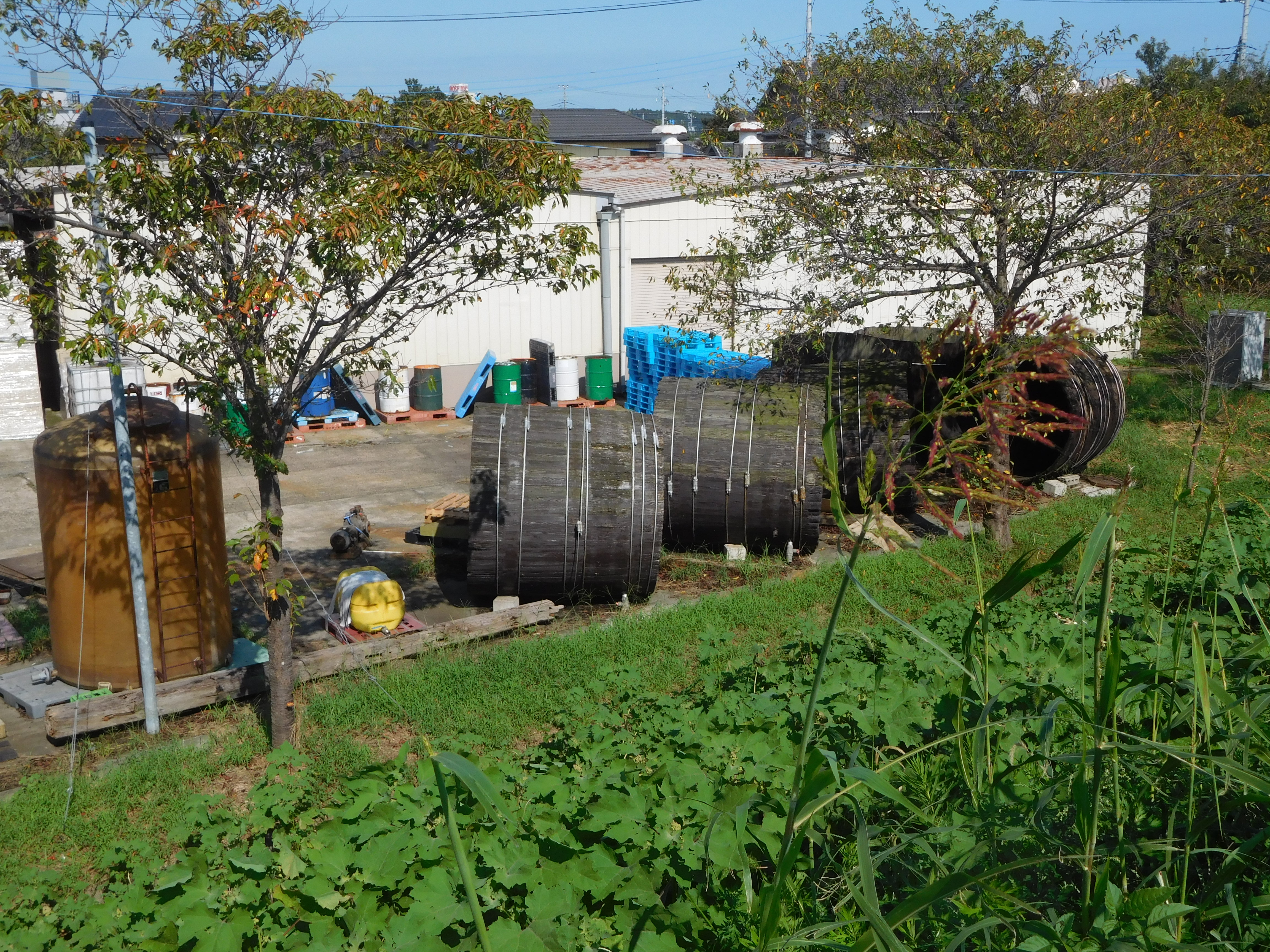 Soy Sauce barrels of Shibanuma Soy Sauce Co., Ltd. in Tsuchiura, Ibaraki, Japan.